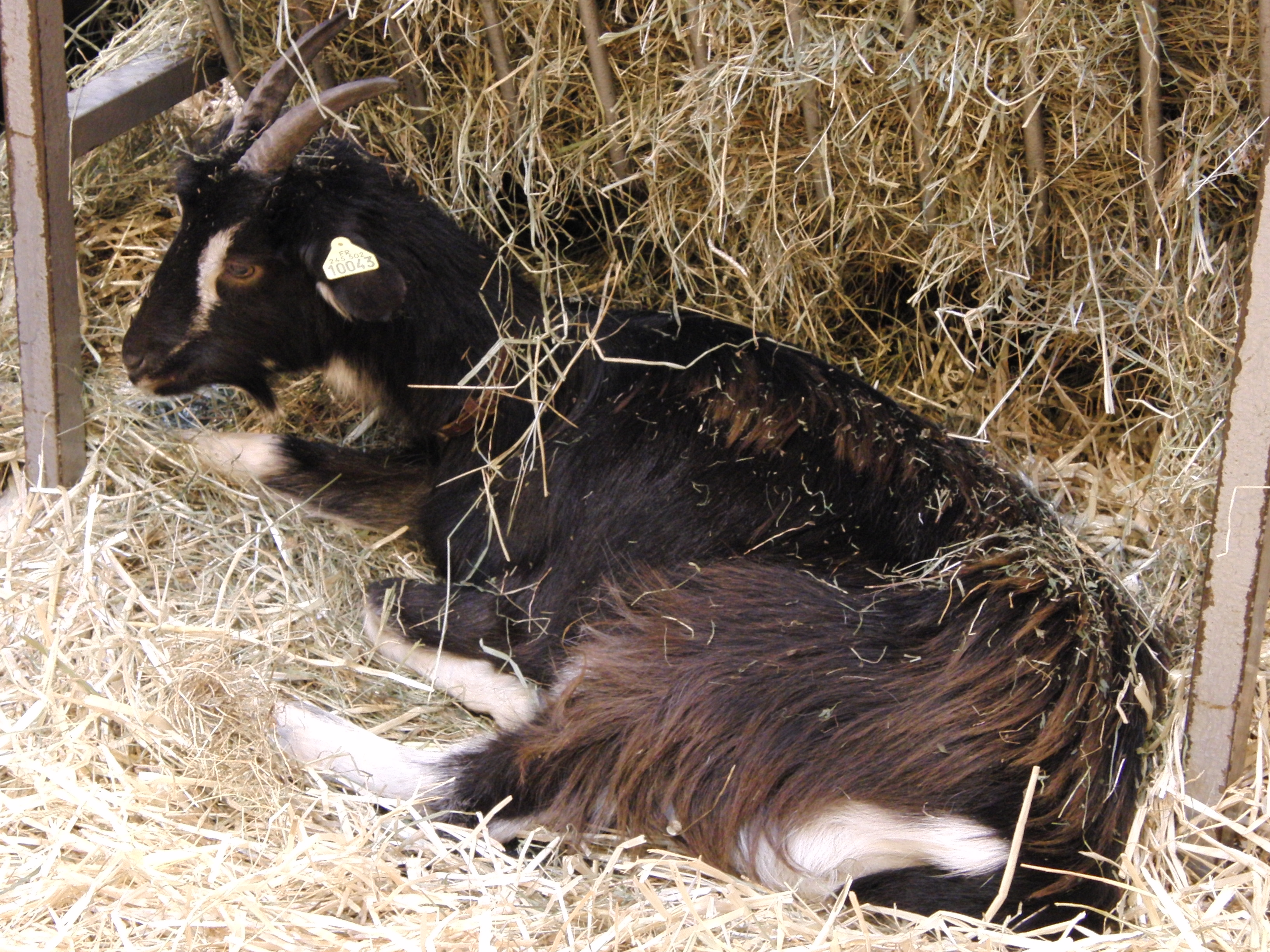 Poitevine goat - Salon international de l'agriculture 2011, Paris, France